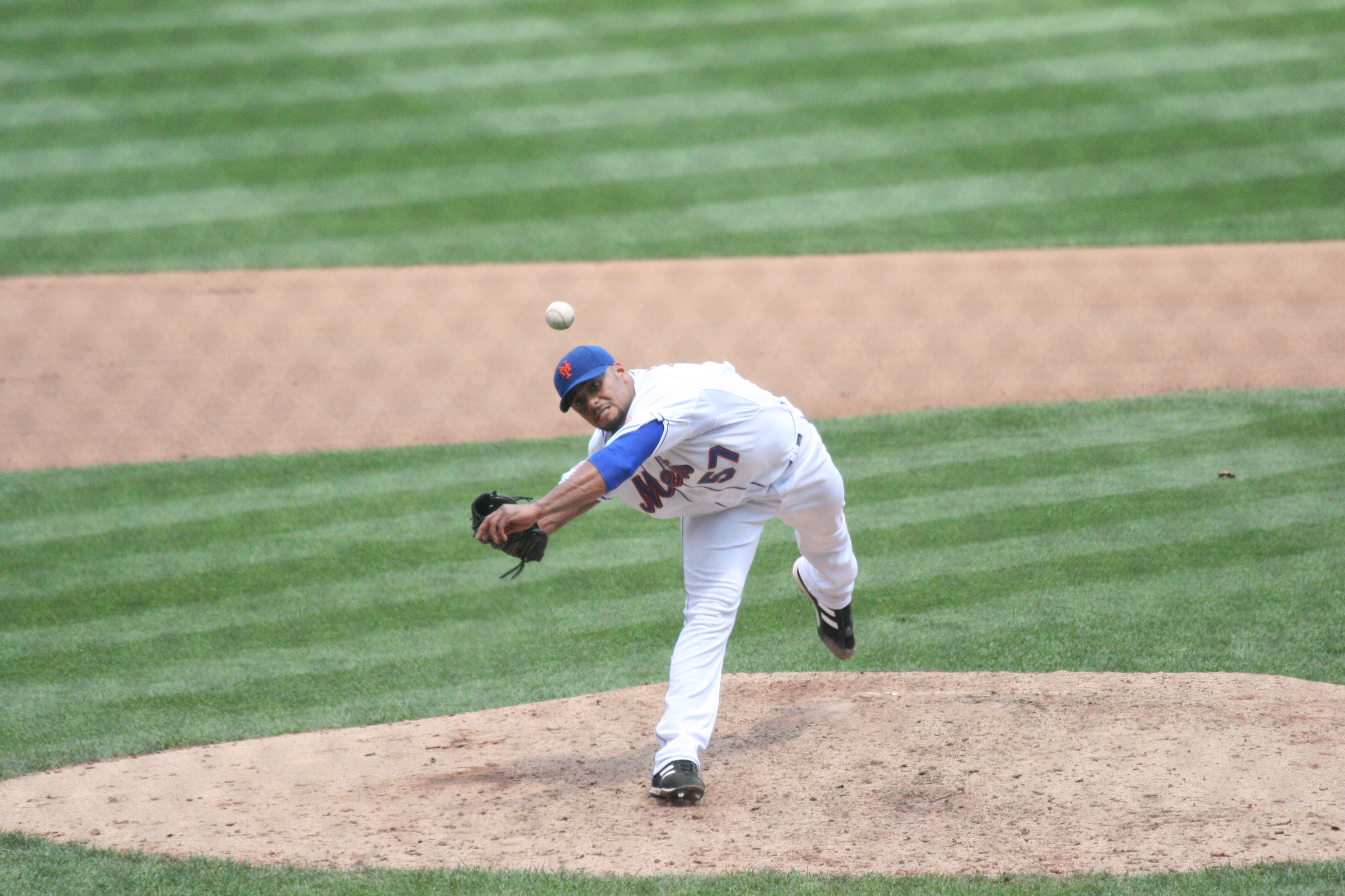 Johan Santana of the New York Mets pitches against the San Diego Padres on August 7th, 2008 in a Major League Baseball game at Shea Stadium.